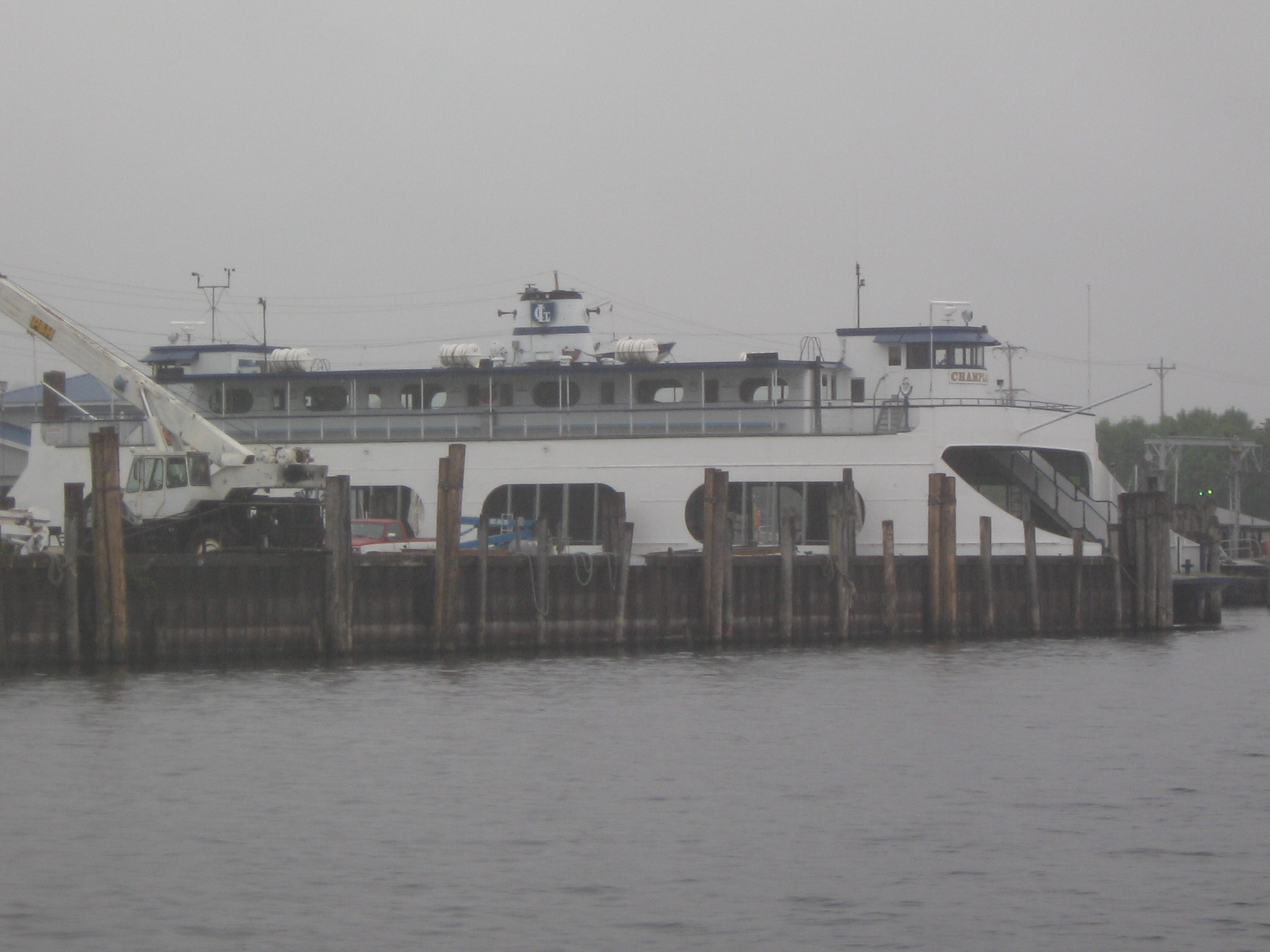 A double-ended ferry on the Burlington-Port Kent route